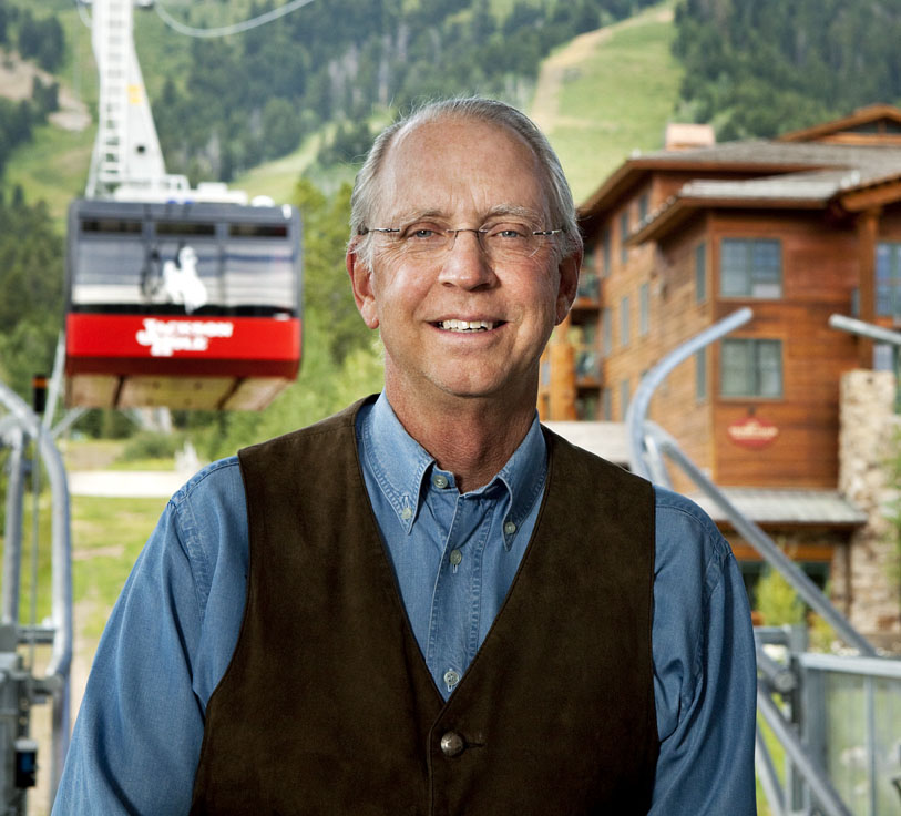 Jay Tram profile photo